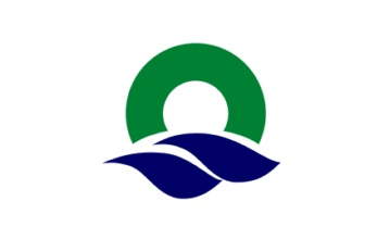 Flag of Oi Fukui